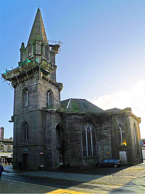 St Pauls Church, Perth Designed by John Patterson with an unusual octagonal nave, and completed in 1807. The last service was held in 1986 and the church is now unoccupied and falling into disrepair.